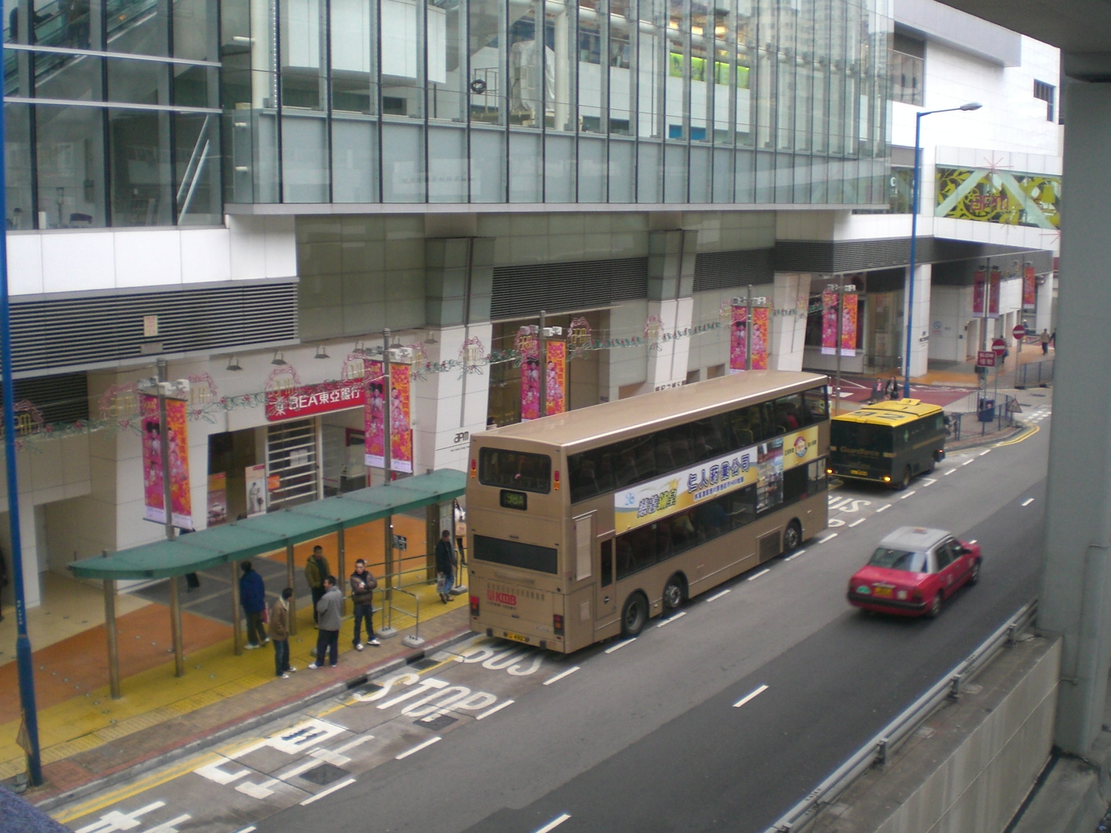 Kwun Tong Road. Volgren CR223LD bodied Volvo Super Olympian - B10TL (built 2002) in Hong Kong, China. Kowloon Motor Bus operator.